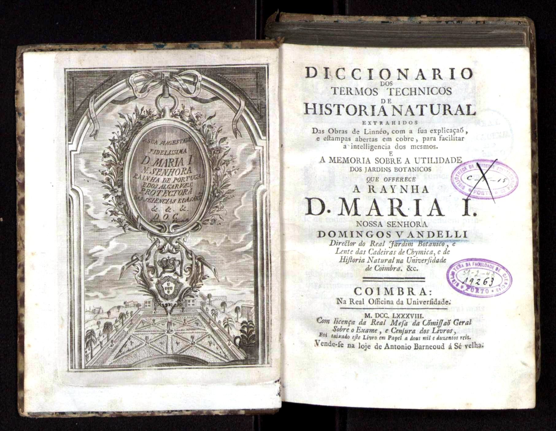 Diccionario dos termos technicos de historia natural extrahidos das obras de Linnéo ... : Memoria sobre a utilidade dos jardins botanicos (1788) - Dictionary of natural history terms.....